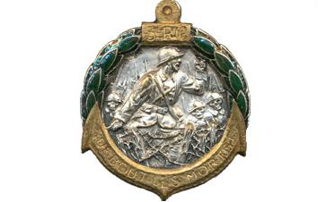 Regimental badge of the 3rd Infantry Regiment coloniale .